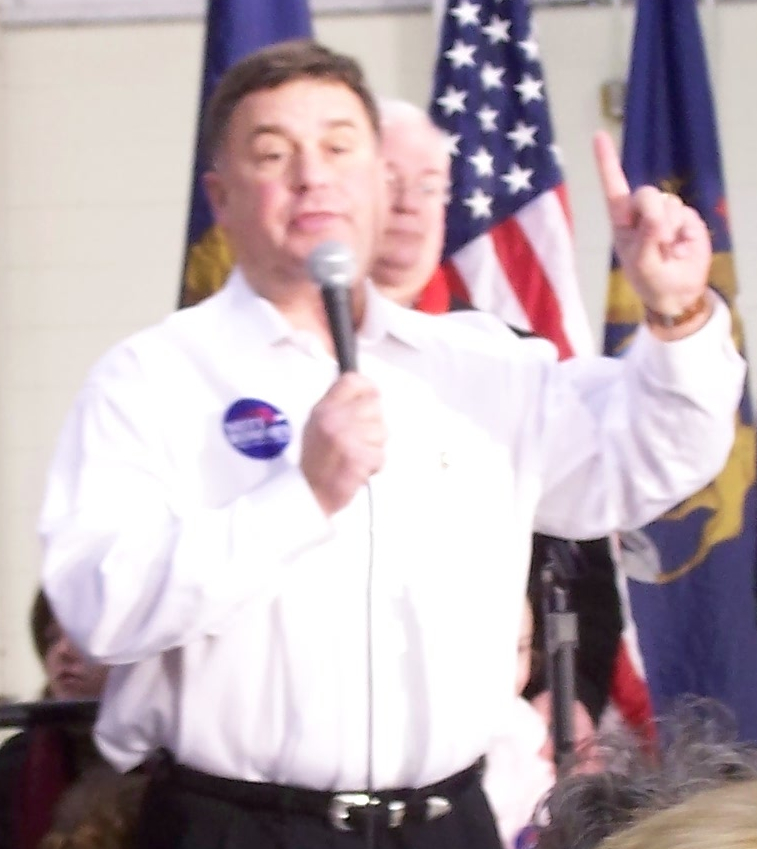 Michigan State Senator Cameron Brown speaks at a rally for Mitt Romney in 2008. Photo courtesy of rawmustard, via Flickr. This file has been extracted from another file: Cameron Brown and Mitt Romney.jpg